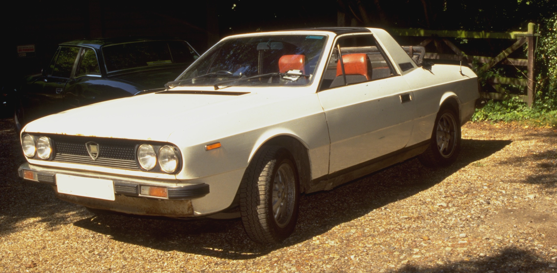 Two-liter Lancia Beta Series One Spider with the roof off.